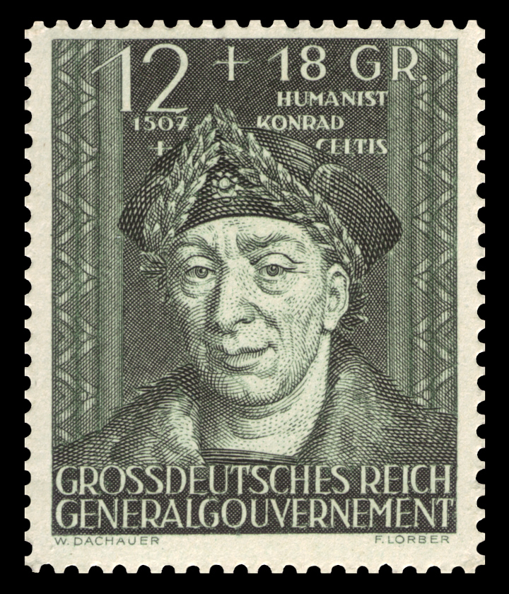 VIPs of culture II Ausgabepreis: 12+18 Groschen First Day of Issue / Erstausgabetag: 15. Juli 1944 Michel-Katalog-Nr: 120 (Generalgouvernement)